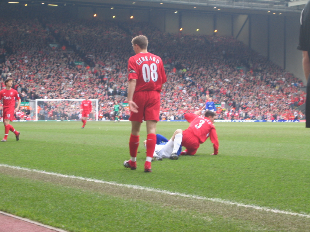 In the Merseyside derby in 2006, both #8s wore #08 as Liverpool had been crowned Capital of Culture for 2008